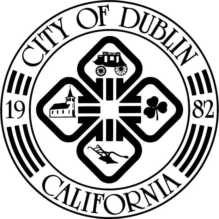 Seal of Dublin, California